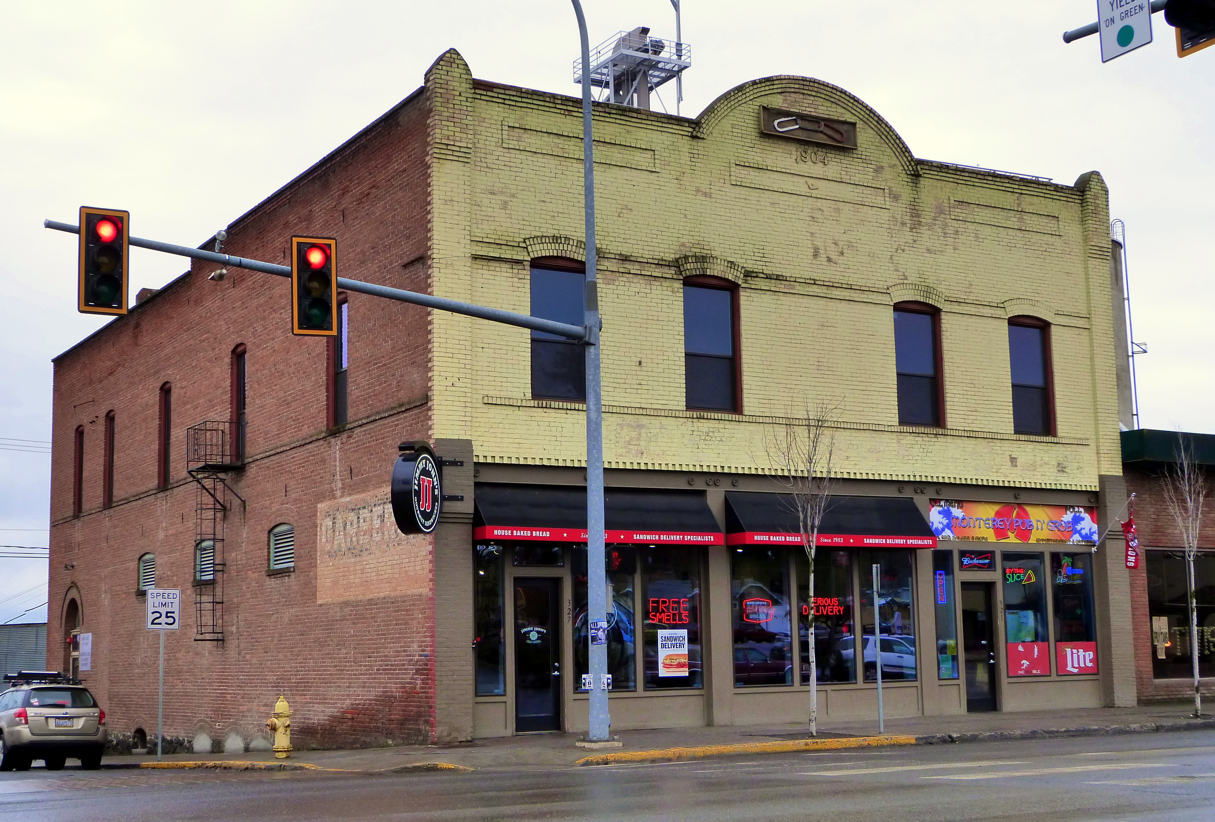 The historic Cheney Odd Fellows Hall (built 1904), located at 321 1st Street in Cheney, Washington, United States, is listed on the US National Register of Historic Places. It is additionally listed as a contributing resource in the City of Cheney Historic District, which is also National Register-listed.